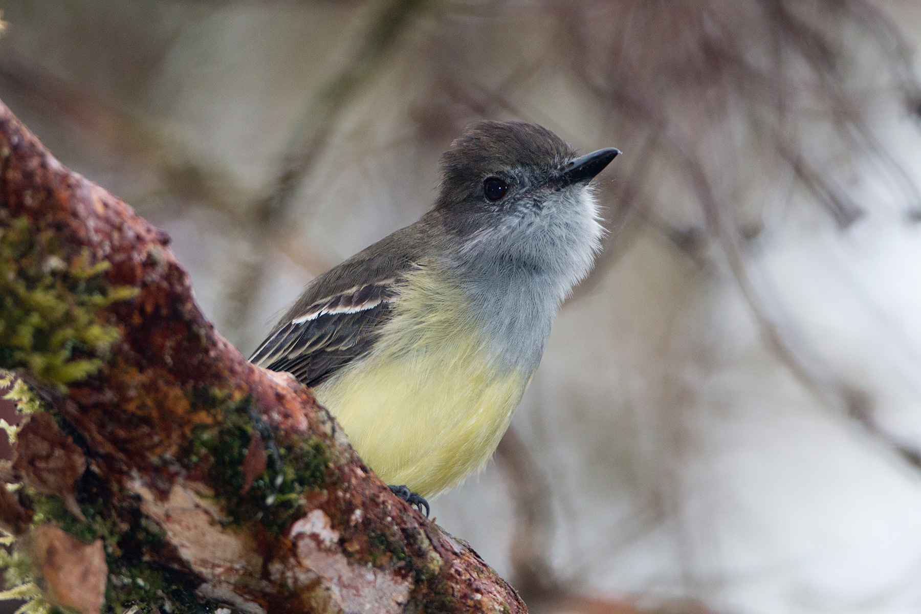 Pale-edged Flycatcher, San Isidro Lodge, Ecuador